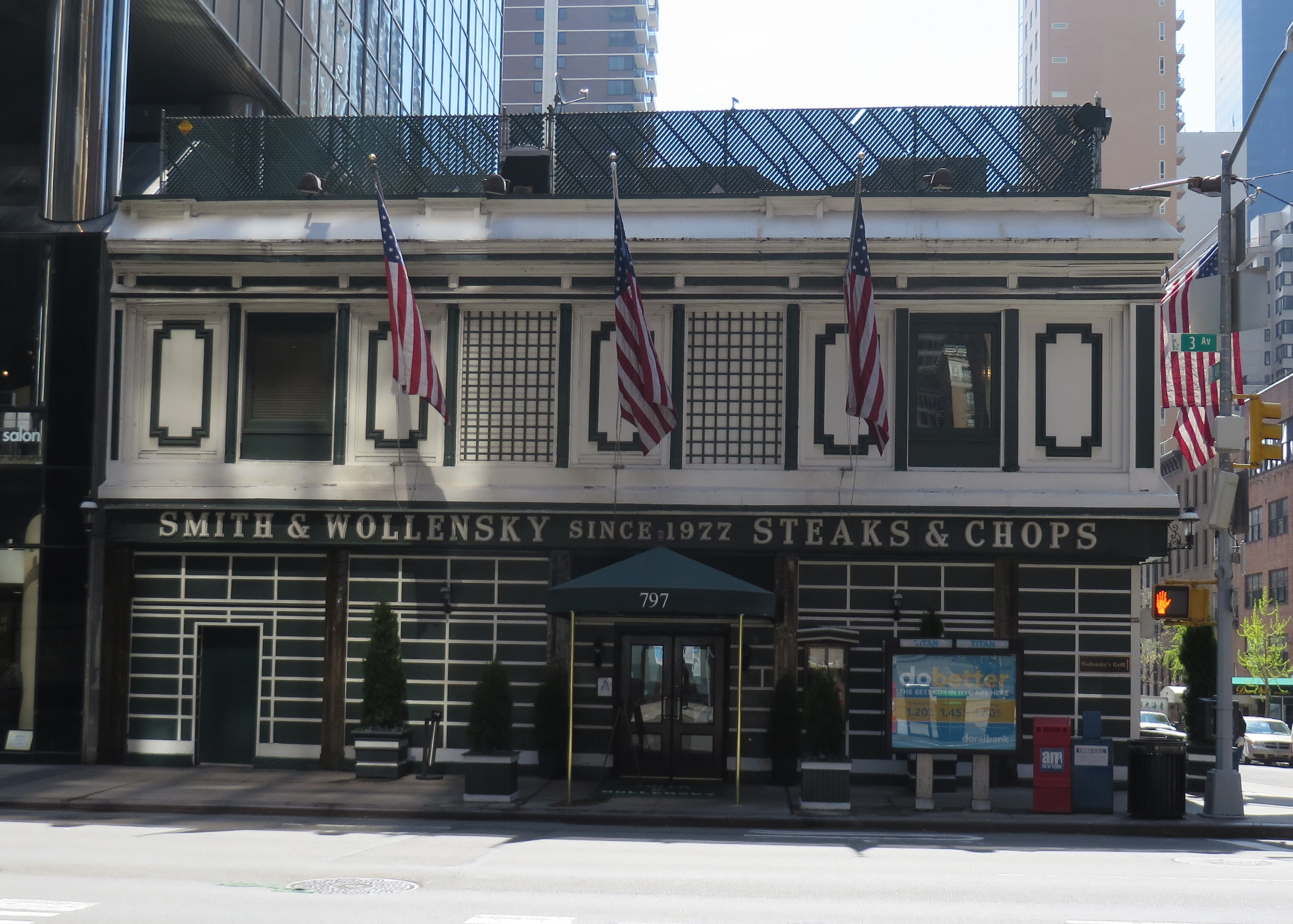 Smith & Wollensky steakhouse, 797 3rd Avenue, Manhattan, New York.